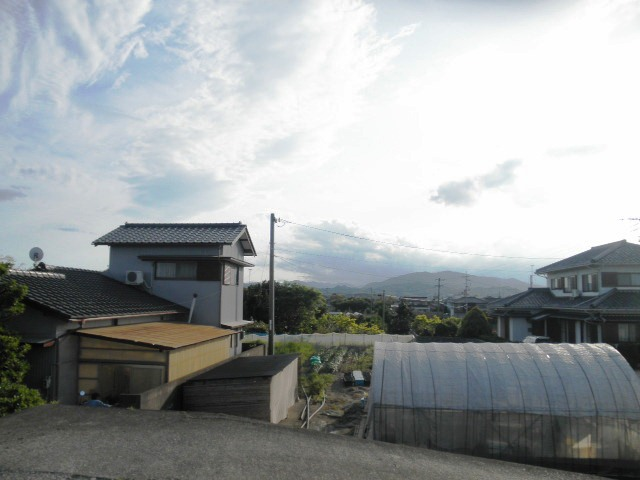 Wadajimatown Myoujinhigashi Komatsushimacity Tokushimapref